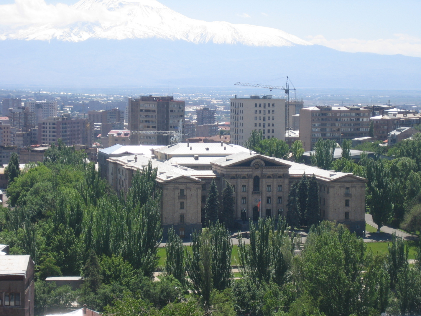 Armenian parliament building, Yerevan, Armenia. (Mount Ararat is in the background.)